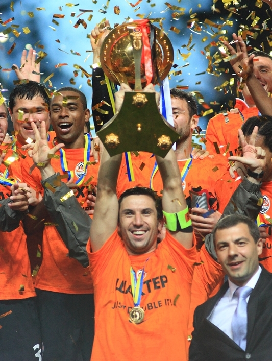 Darijo Srna (2011 Ukrainian Cup)